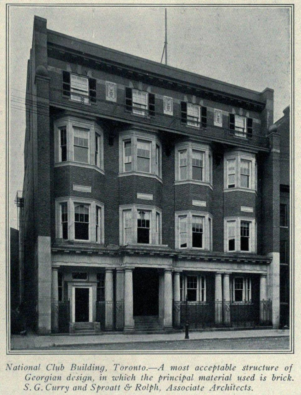 Image of the The National Club, Toronto, Canada from a postcard from 1909.